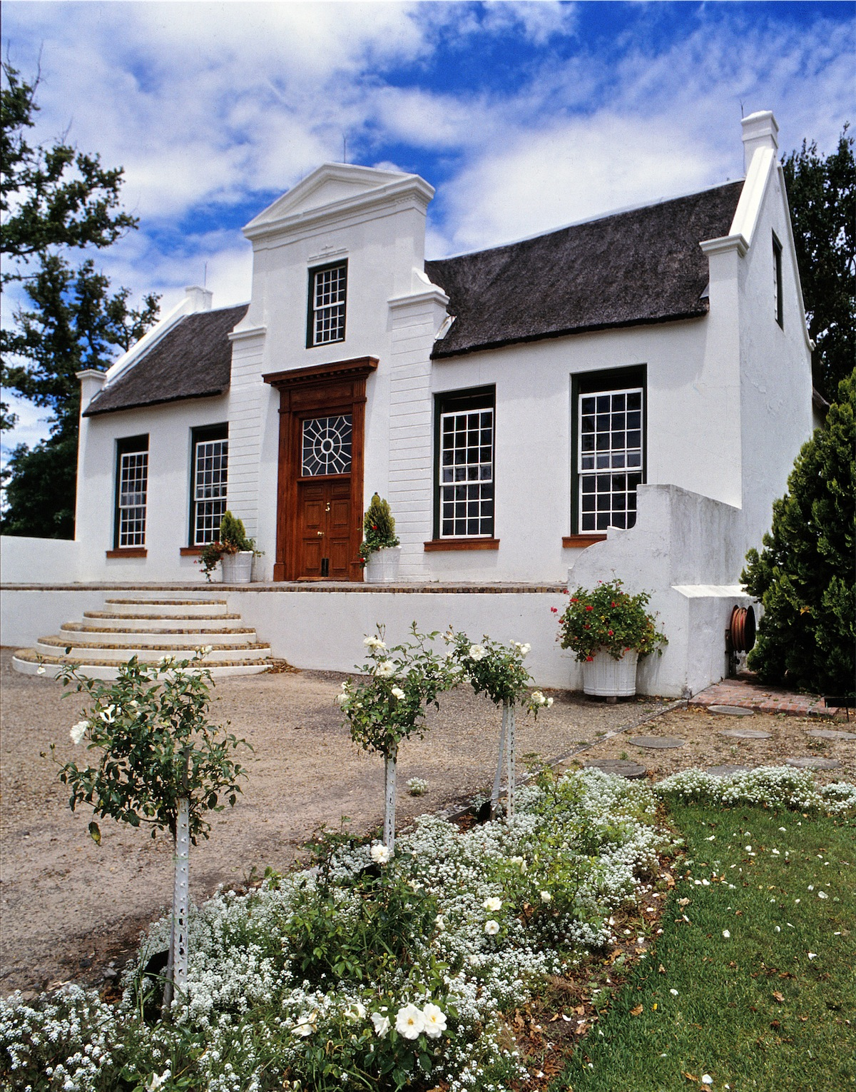 This media shows a South African Protected Site with SAHRA file reference 9/2/111/0094.